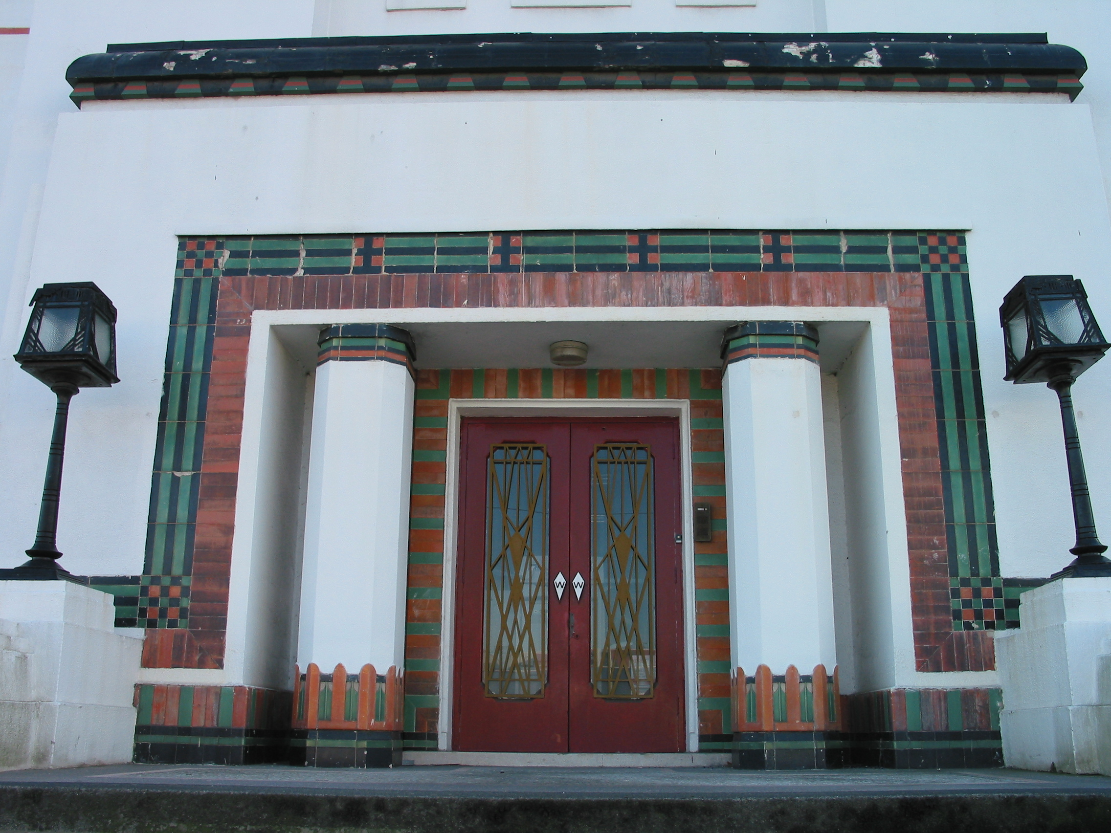 Main entrance detail picture of the Art Deco Pyrene Building (now Westlink House), designed by the Wallis, Gilbert and Partners partnership between 1929 and 1930, Great West Road, Brentford, UK photo by myself Date and Time 2005:01:23 13:22:11 Exposure Time 1/200 sec. F Number f/4.0 Copyright © 2005 WLD